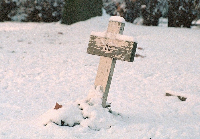 Weathered white wooden cross on an otherwise anonymous grave on the children's graves field of the Melaten Cemetery in Cologne, Germany; disappeared by now